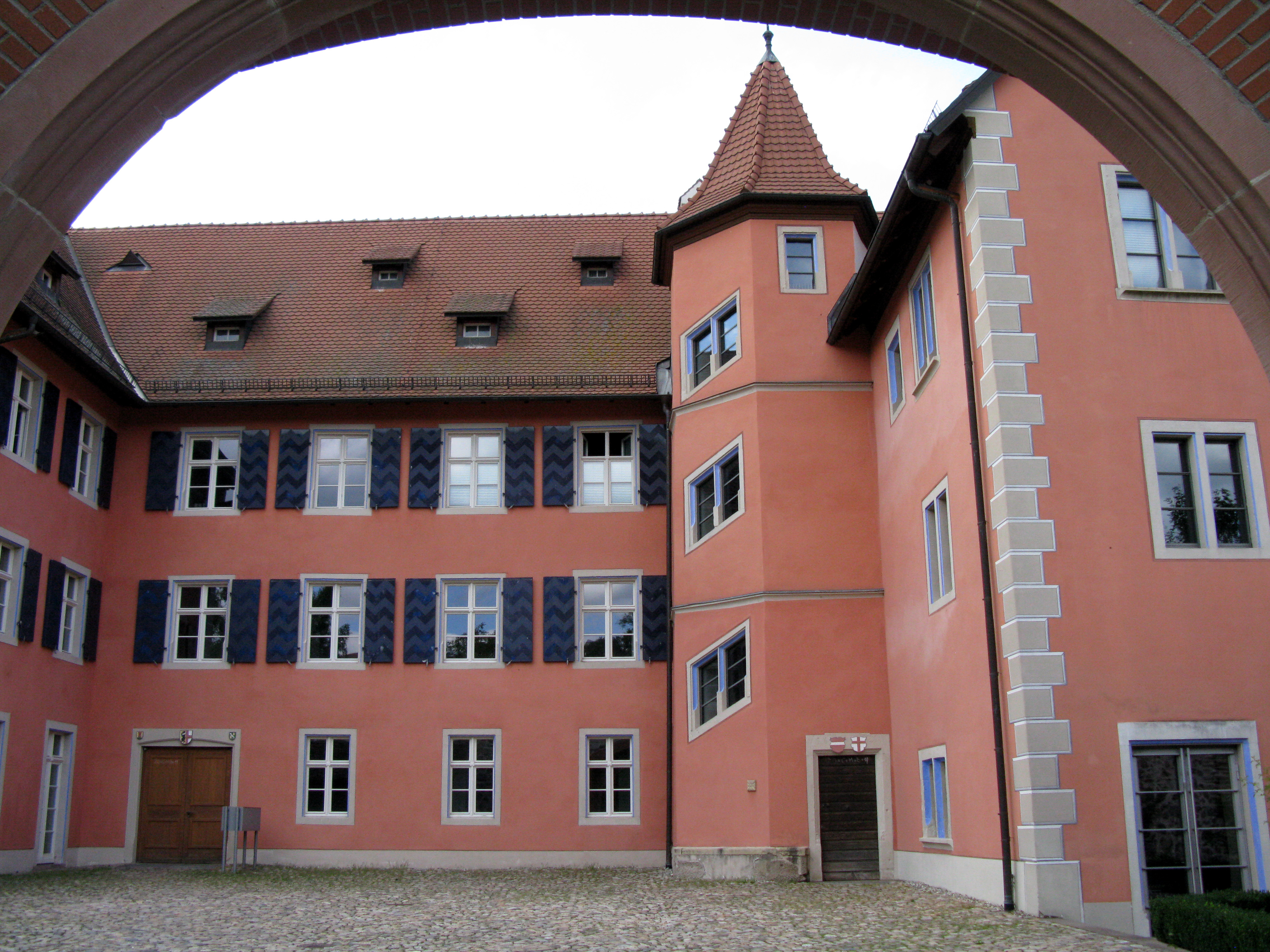 Talvogtei (Town hall)